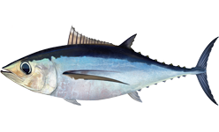 Albacore tuna, Thunnus alalunga